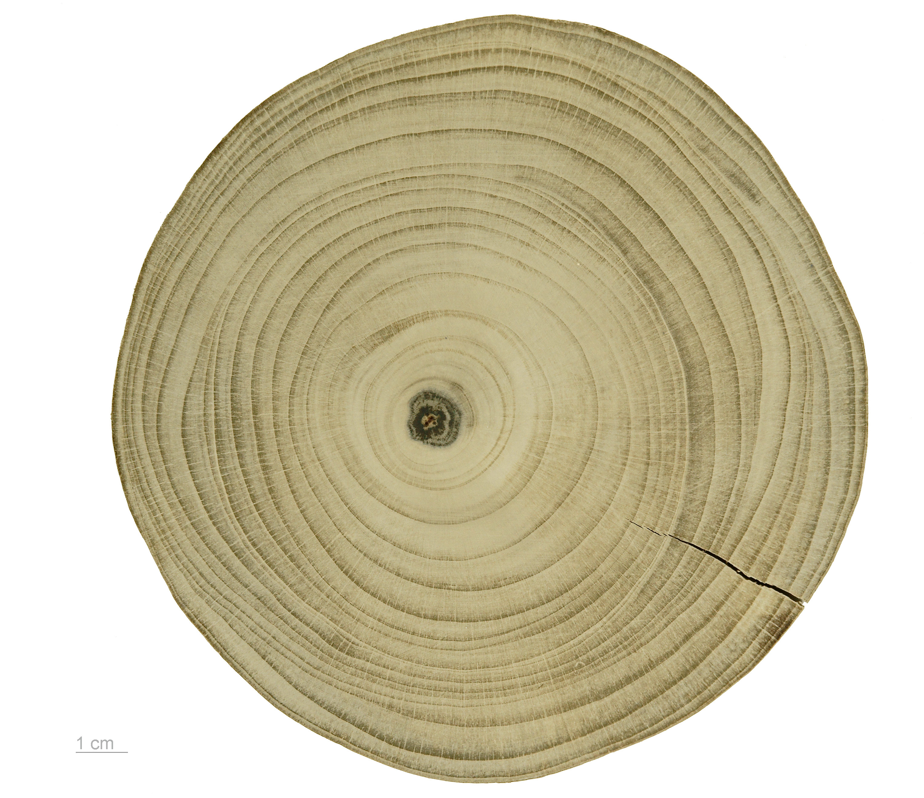 Ginkgo , wood